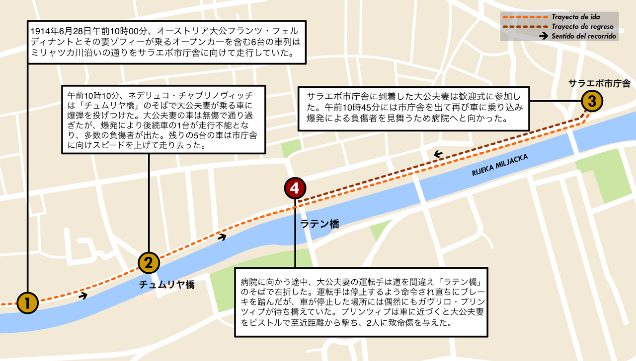 Japanese-language version of"Atentado de Sarajevo.png" originally created by Hmaglione10